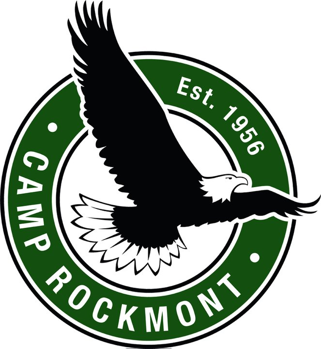 Emblem of Camp Rockmont